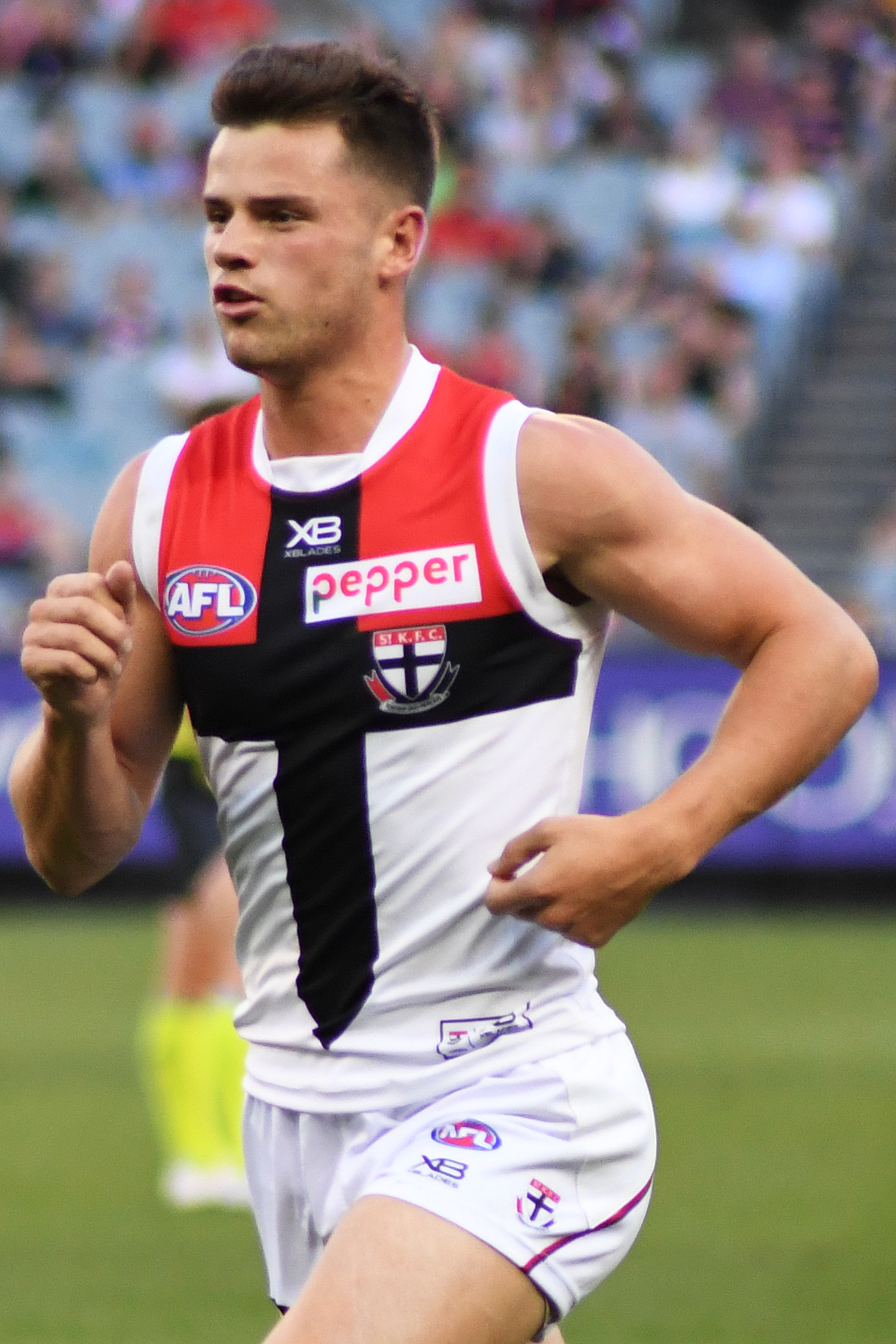 Jack Sinclair of St Kilda during the 2019 AFL round 5 match between Melbourne and St Kilda at the Melbourne Cricket Ground on Saturday, 20 April 2019 in Melbourne, Victoria.